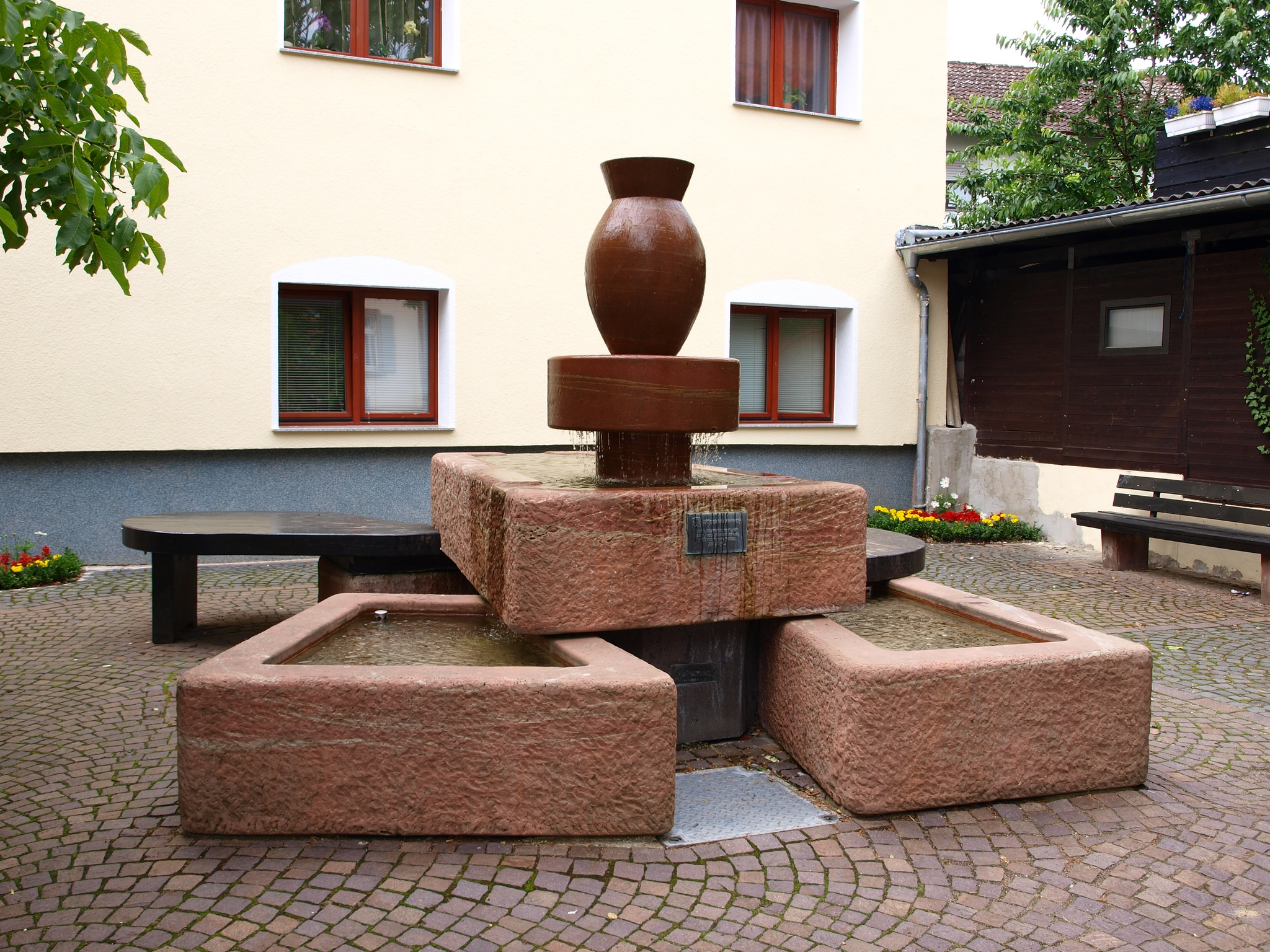 The “Toepferbrunnen” in Friedrichsdorf-Seulberg, a symbol for the pottery trade.